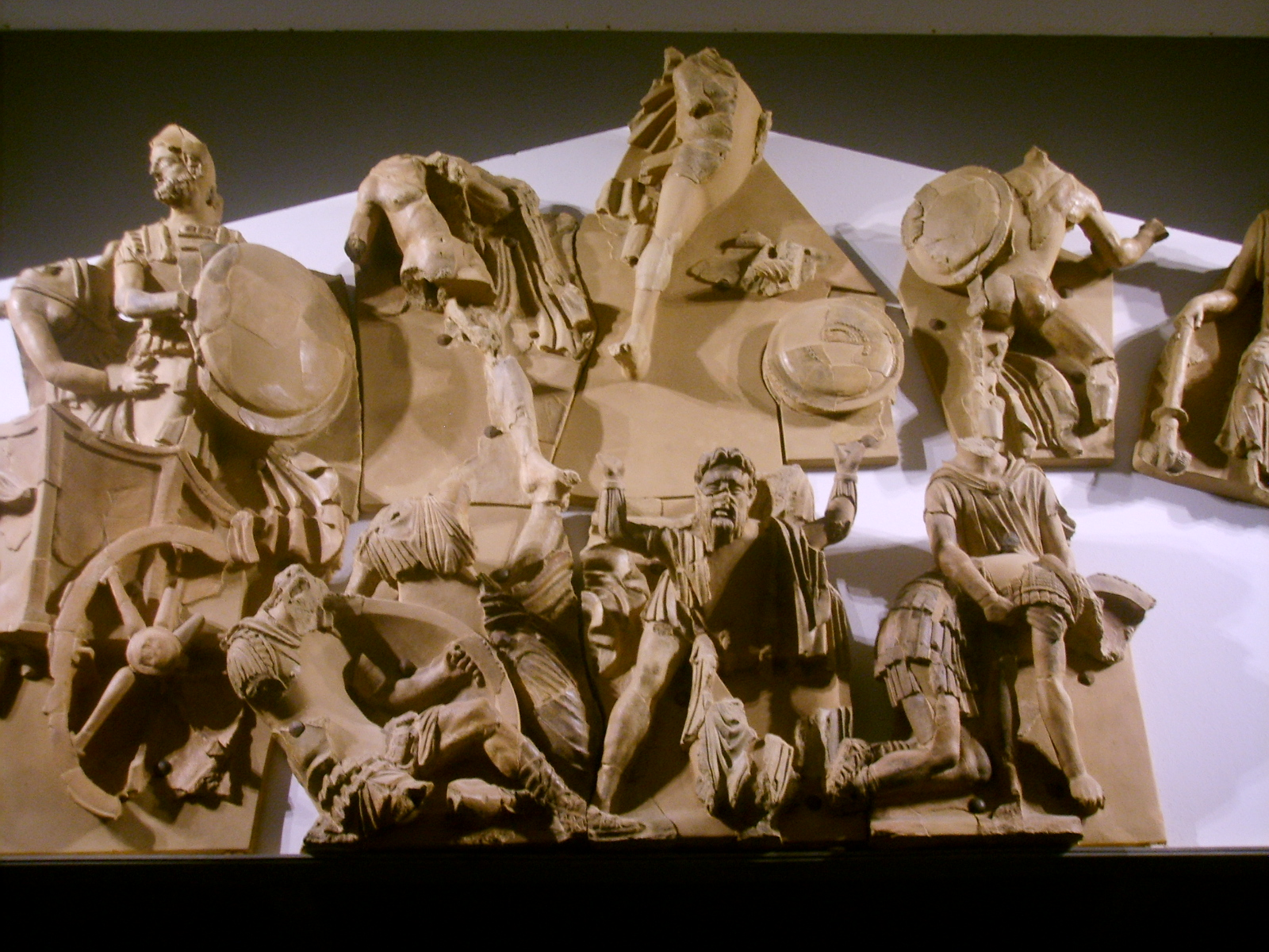 Terracotta pediment from the temple of Talamone (Grosseto), the first closed pediment in Etruria, showing the fate of the Seven against Thebes.